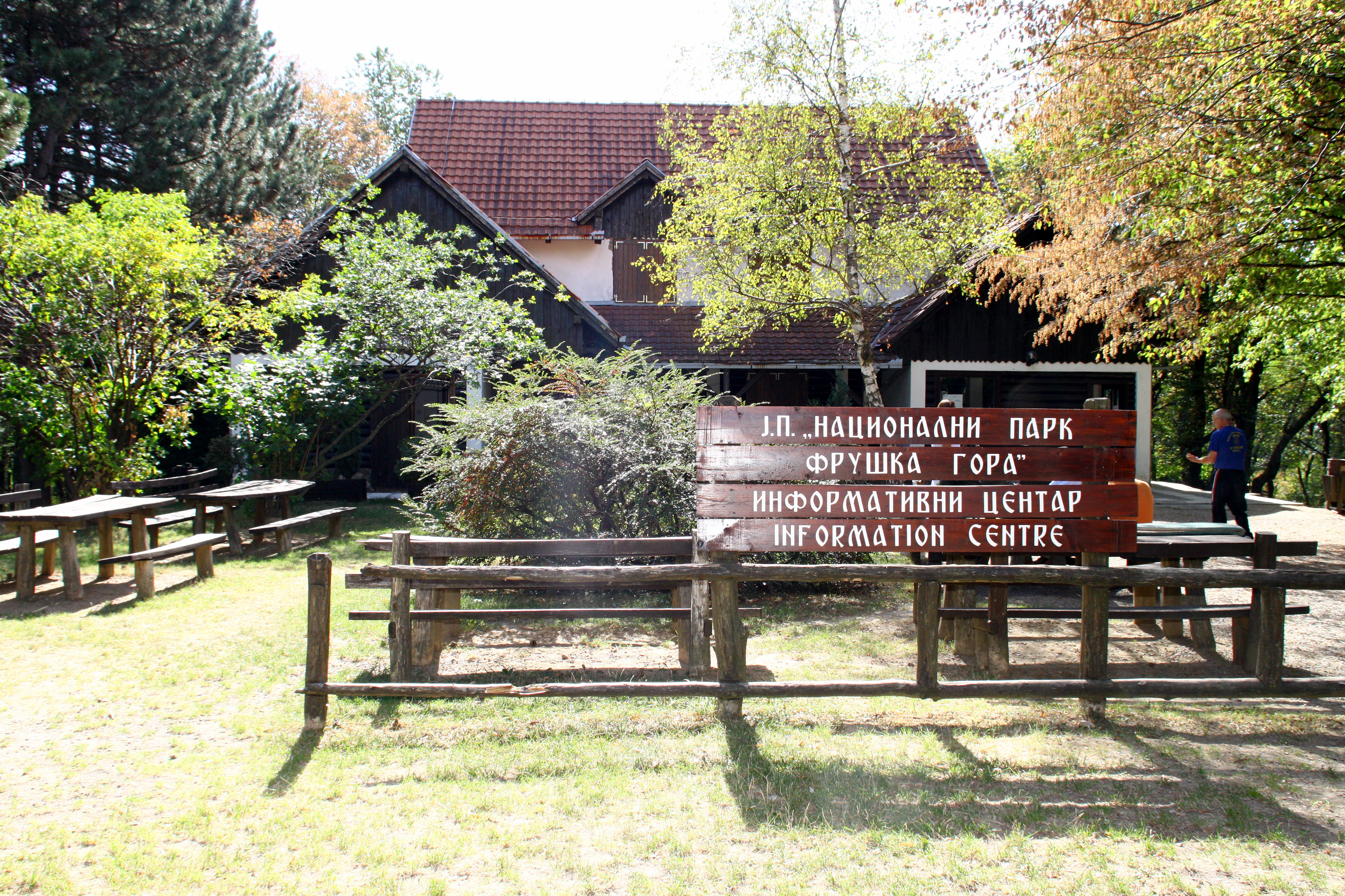 Information center - Fruška Gora national park, Serbia